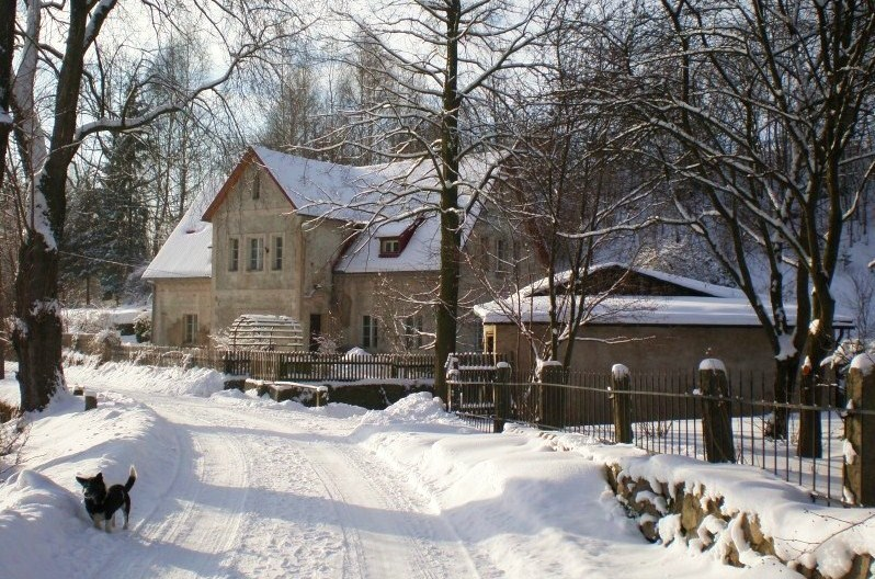 Janowice Wielkie - Chlopska Street